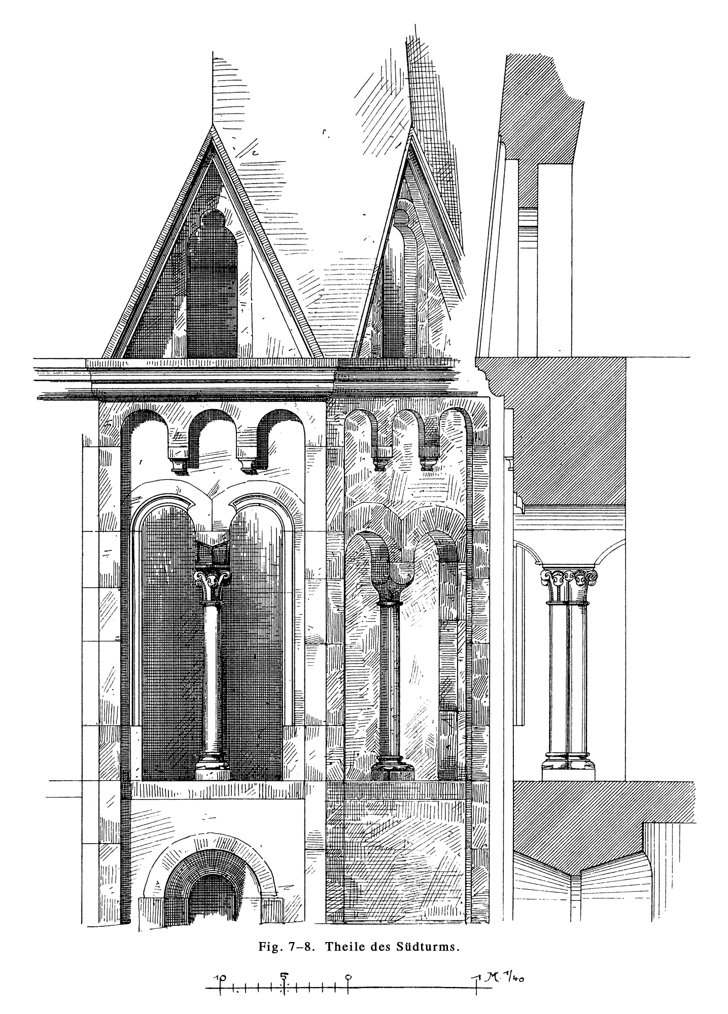 Frankfurt on the Main: Leonhardskirche (Leonard's church), oversize of parts of the southern spire